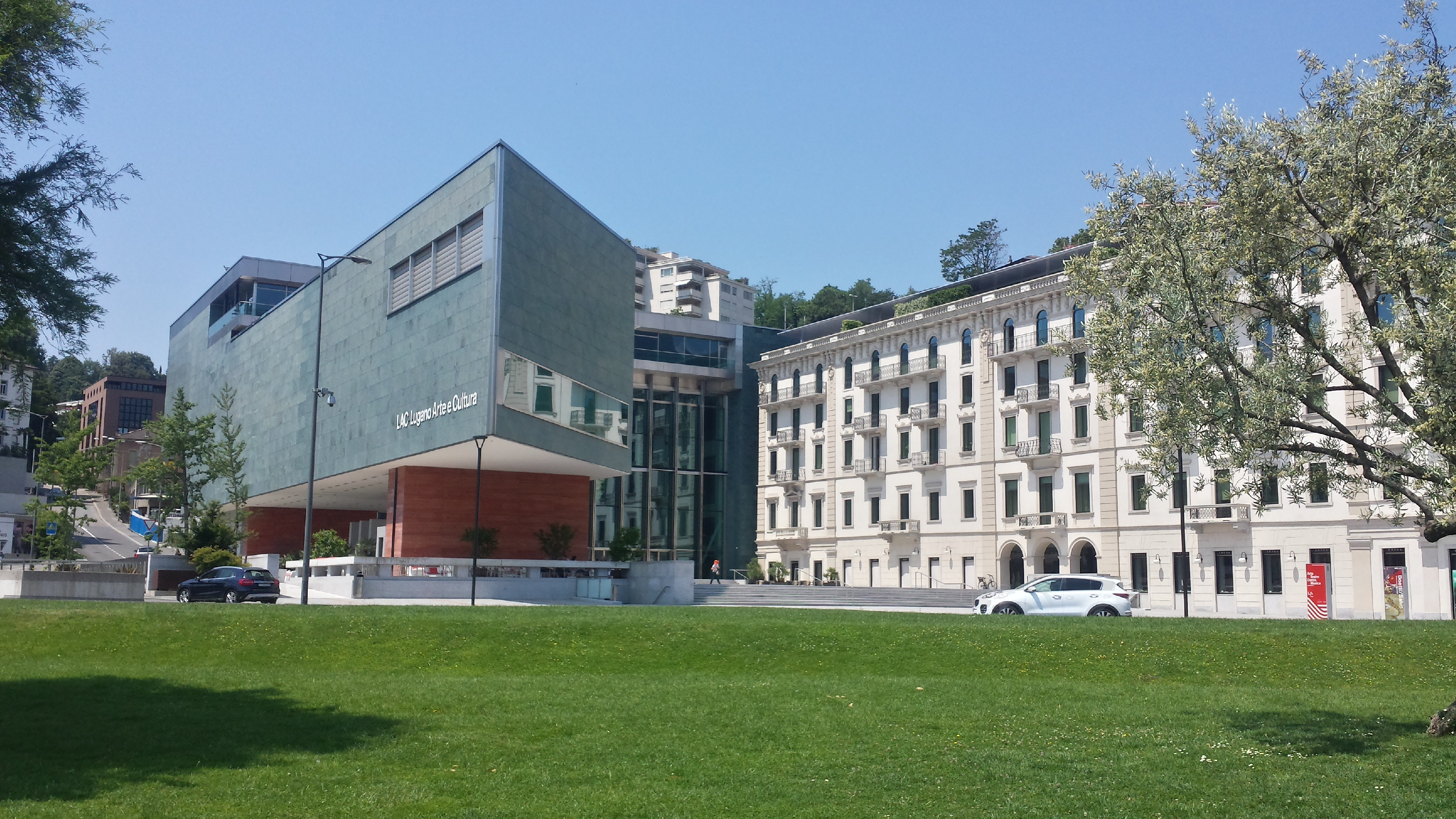 LAC Lugano